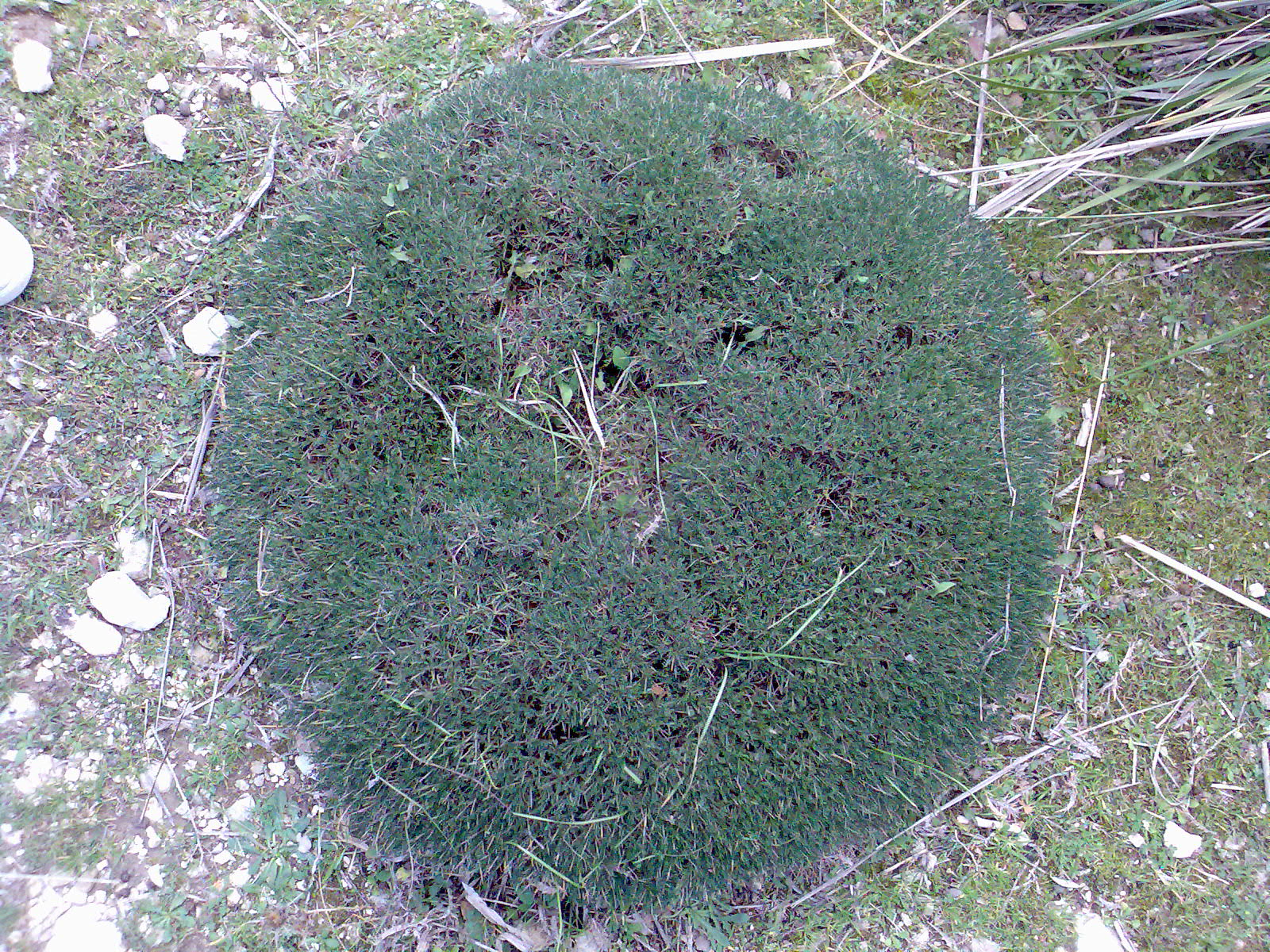 This is an Astragalus balearicus at Pla de Cúber